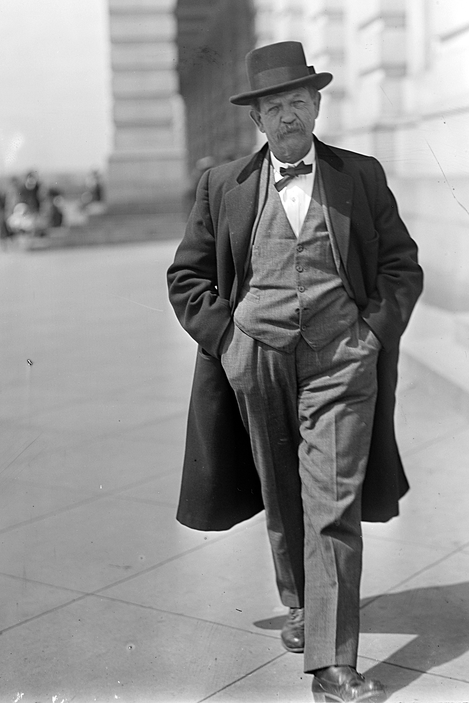 George Konig, US Representative from Maryland